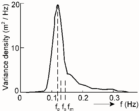 Simple form of the energy densiy spectrum of a wind wave